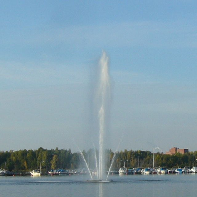 Fountain at Aurlahti beach in Lohjanjärvi, Lohja, Finland. The red building in the back is part of Lohja paper mill.